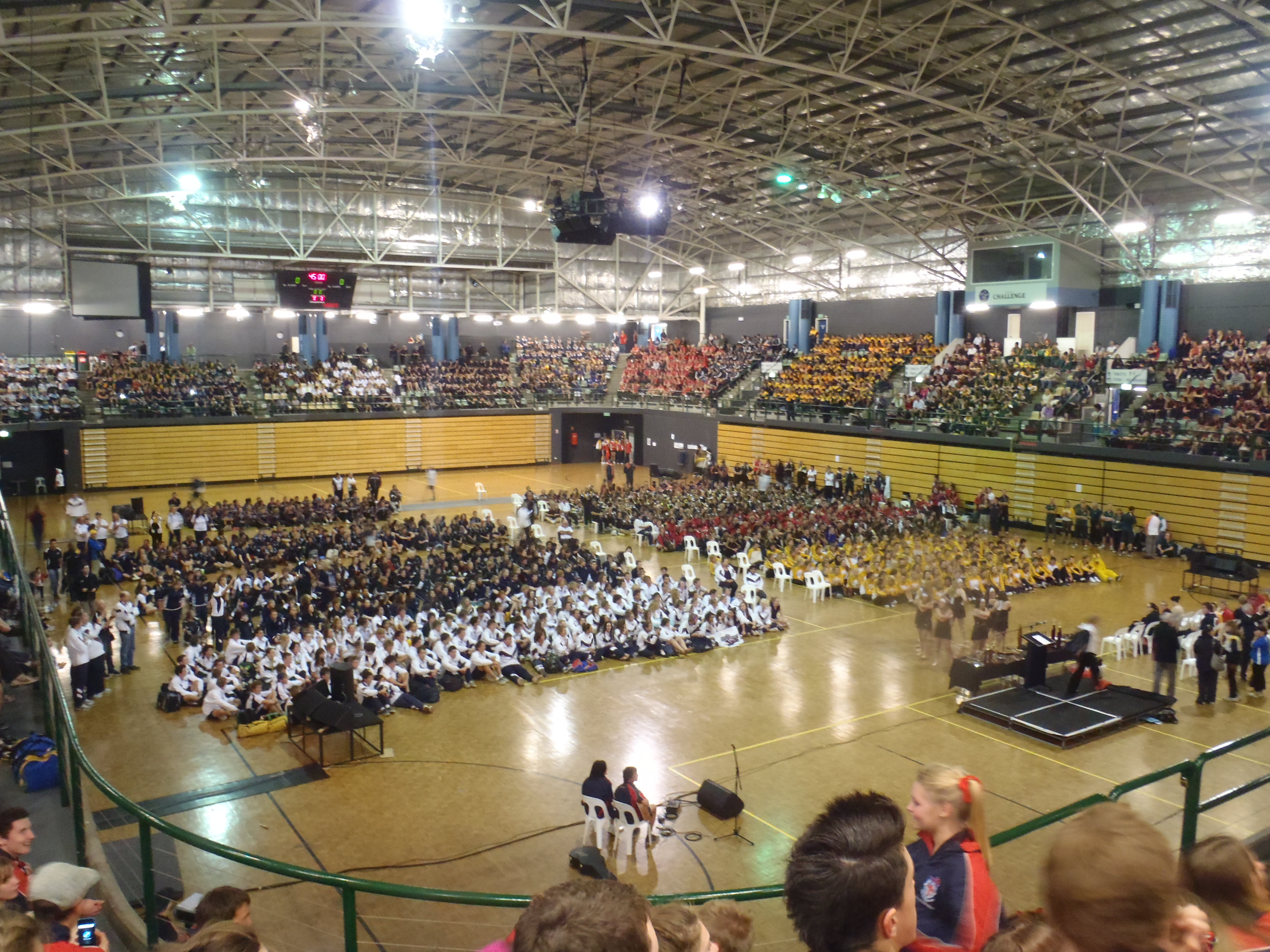 Closing ceremony of countryweek 2012